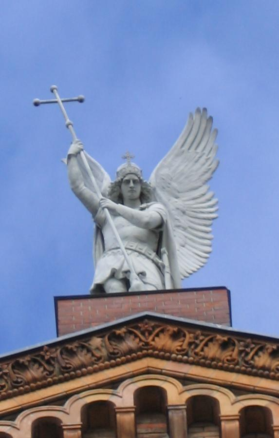 The angel Michael at the Saint Michael church (Sankt Michaelskirche) in Berlin by August Kiss